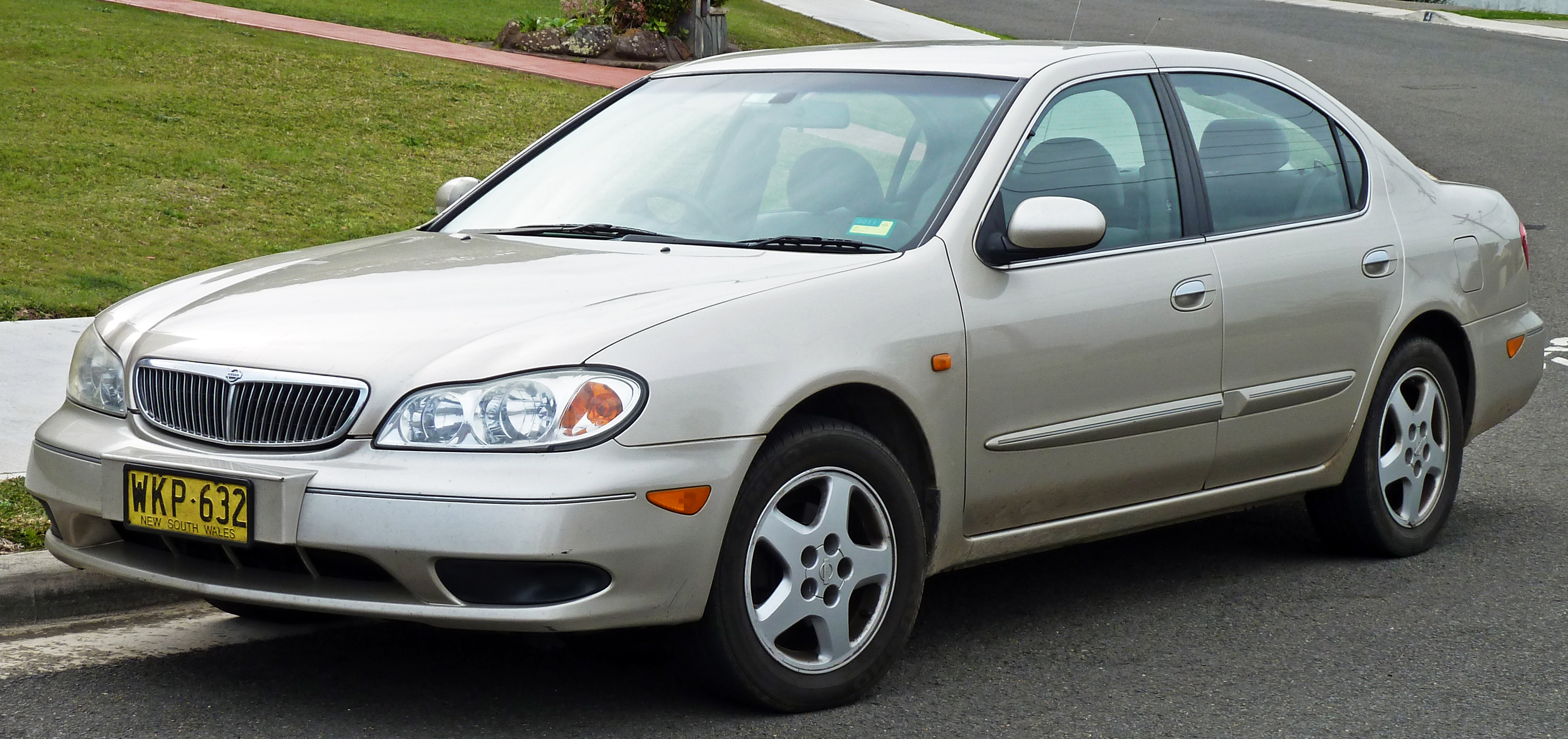 1999–2001 Nissan Maxima (A33) ST sedan. Photographed in Taren Point, New South Wales, Australia.